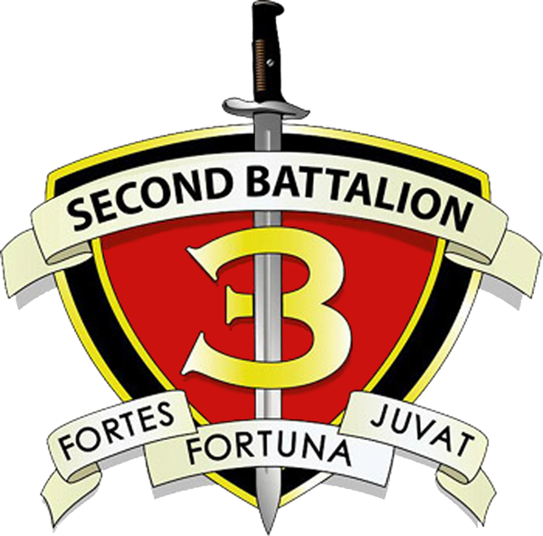 Image is a slightly clearer variation of the logo found on the United States Marine Corps 2nd Battalion 3rd Marines website. Made with Photoshop.